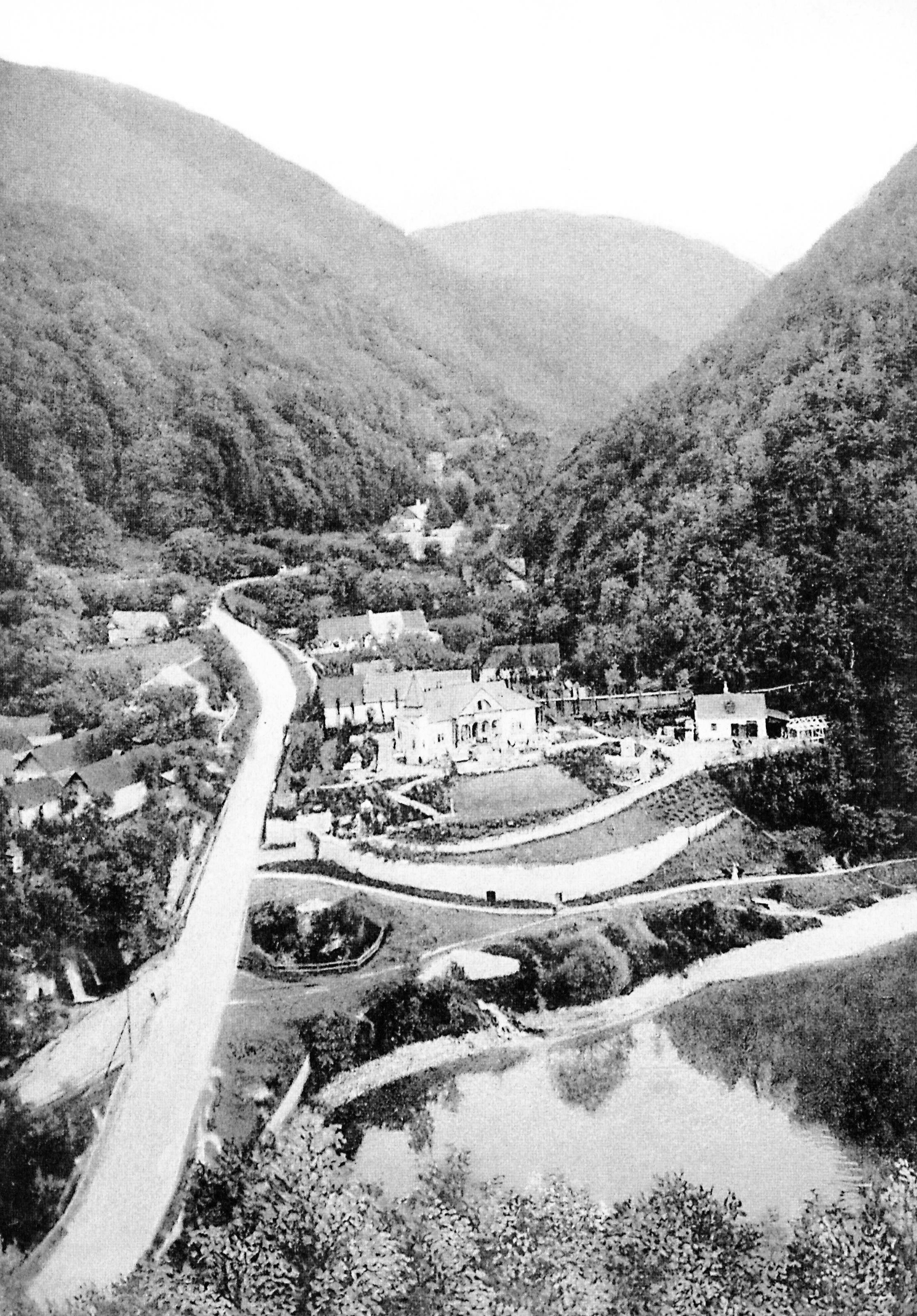 Lillafüred before the start of construction Palace Hotel, around 1920, Lillafüred, Hungary